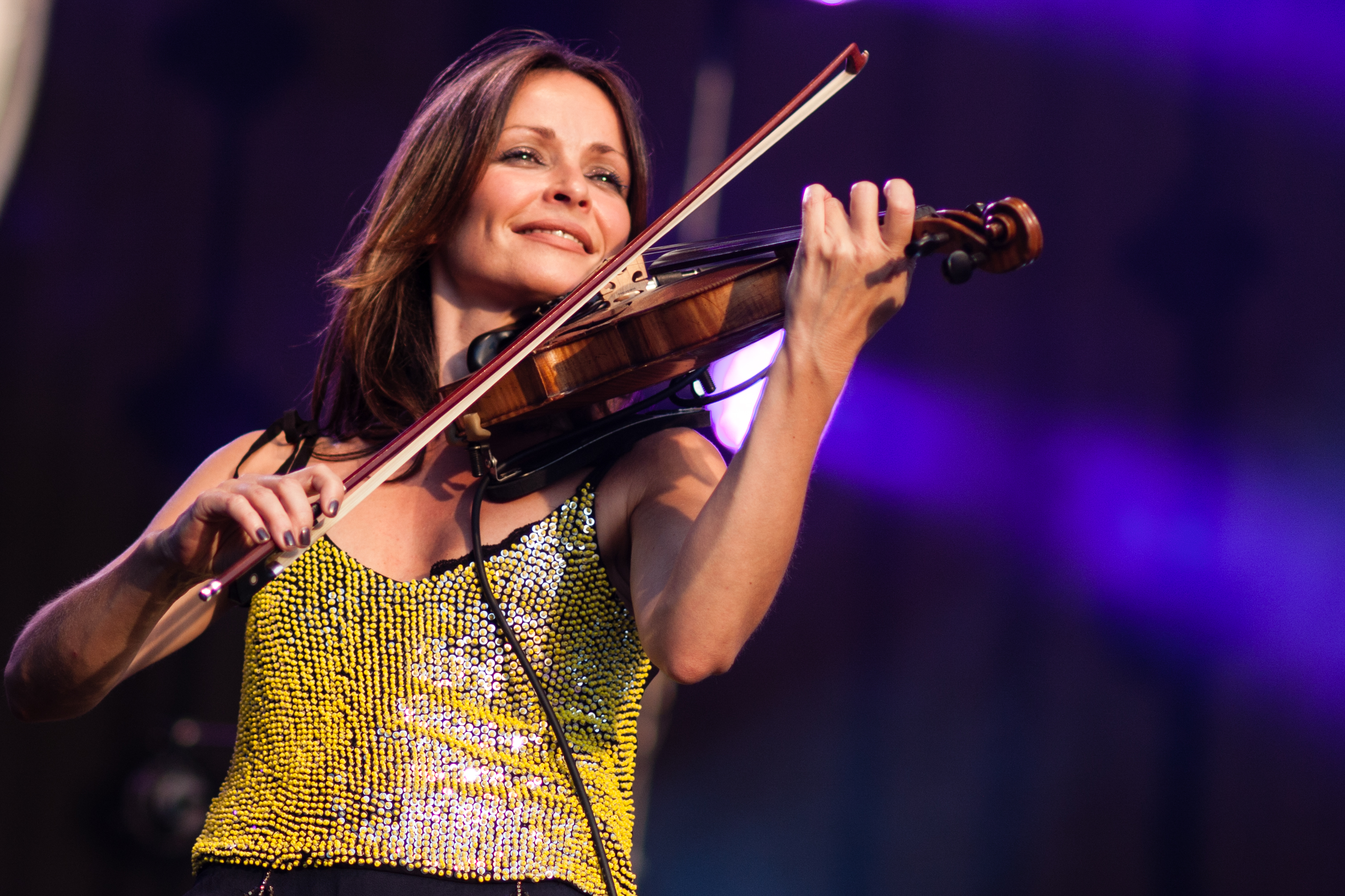 Follow me on facebook Twitter : @didyPhotography All the photographies I've made are now under CC0 (Creative Commons Zero) CC0 - learn more To the extent possible under law, Eddy BERTHIER has waived all copyright and related or neighboring rights to Sharon Corr @ Bsf 2012. This work is published from: France.